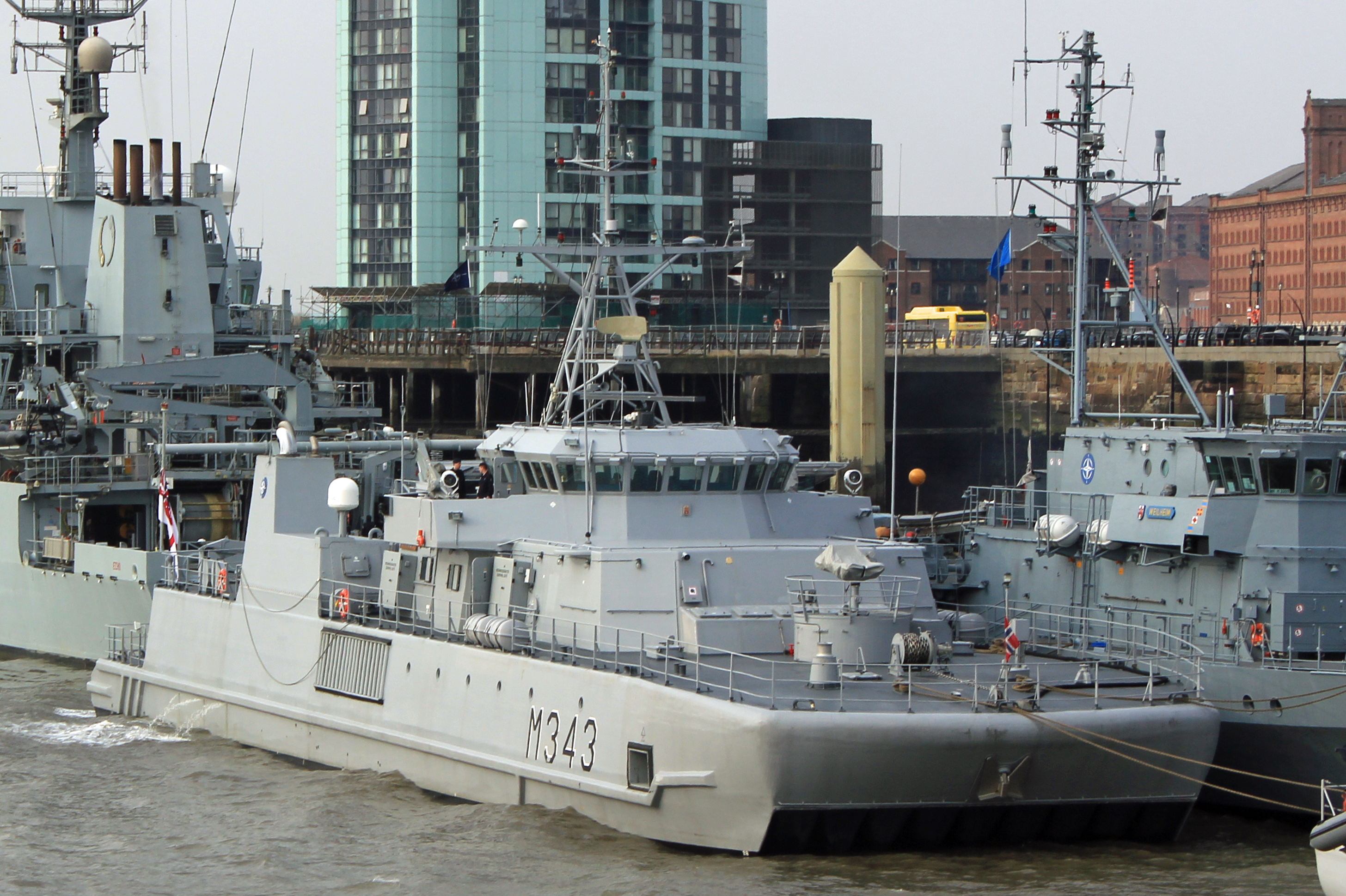 Norwegian mine hunter Hinnøy M343 in the River Mersey, Liverpool.